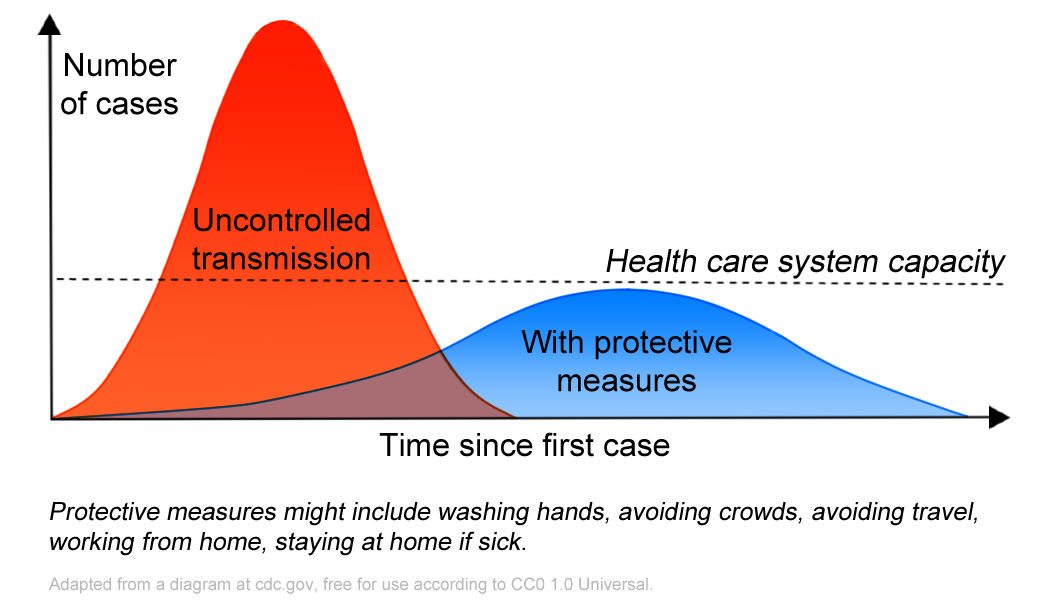 Diagram showing the effect of protective measures on virus spread in a population. Created for the outbreak of Covid 19. Own work adapted from information from : Swedish-language version at